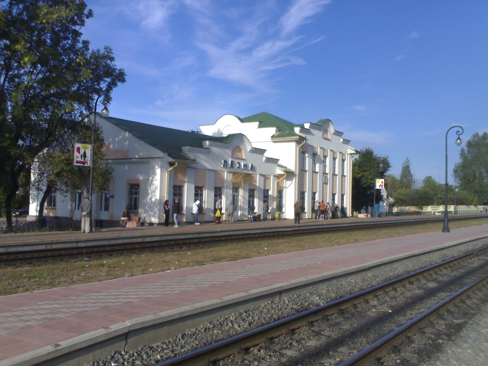 Railway station of Lozna